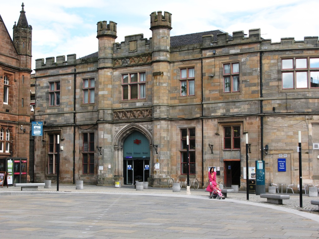 The main entrance to Paisely Gilmour Street station, which faces on to County Square on the south side of the railway.